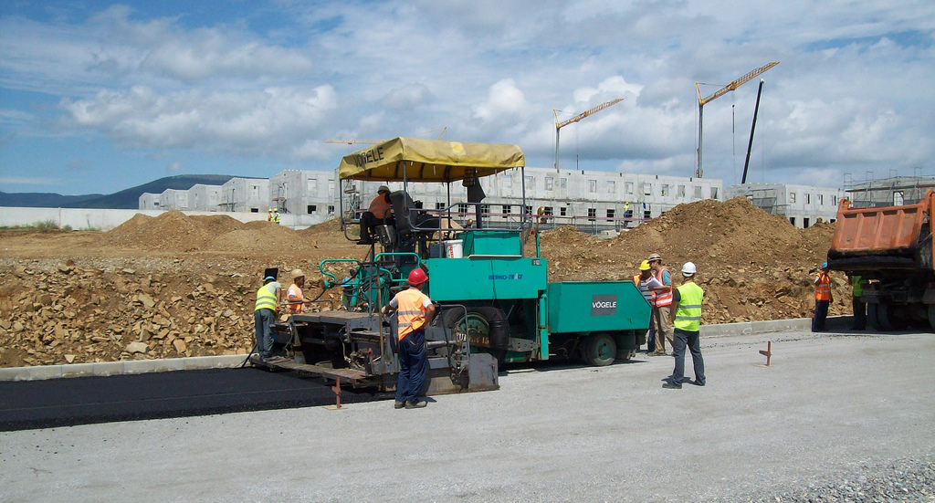 NOVO SELO TRAINING AREA, Bulgaria — Road company Berco Bulgaria lays asphalt on alignment 6 here July 19, while heavy construction work of barracks proceeds in the background. Roughly $50 million of improvements are going into the training area to allow it to provide superior joint training for U.S., Bulgarian, and international troops. (U.S. Army Corps of Engineers photo by Petar Kopankov).